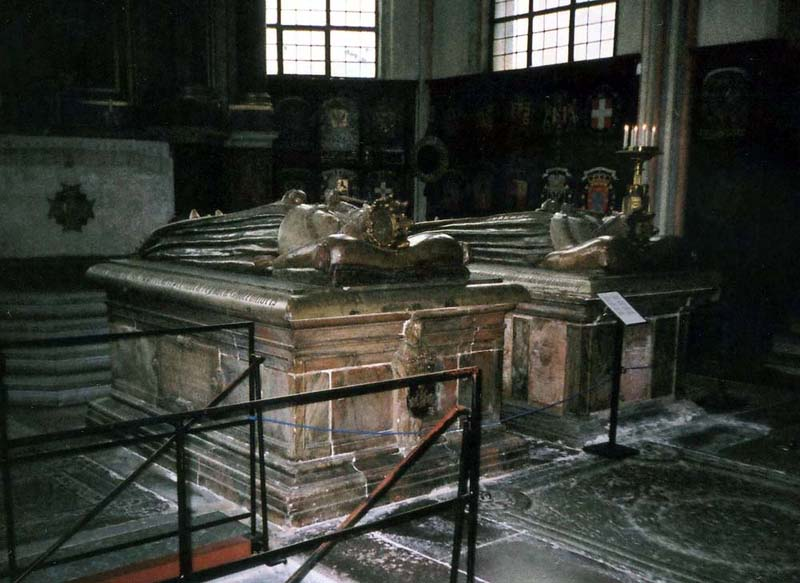 Grave monuments over the family crypt of King Magnus III (†1290) at Riddarholm ChurchPlace: Stockholm, Sweden